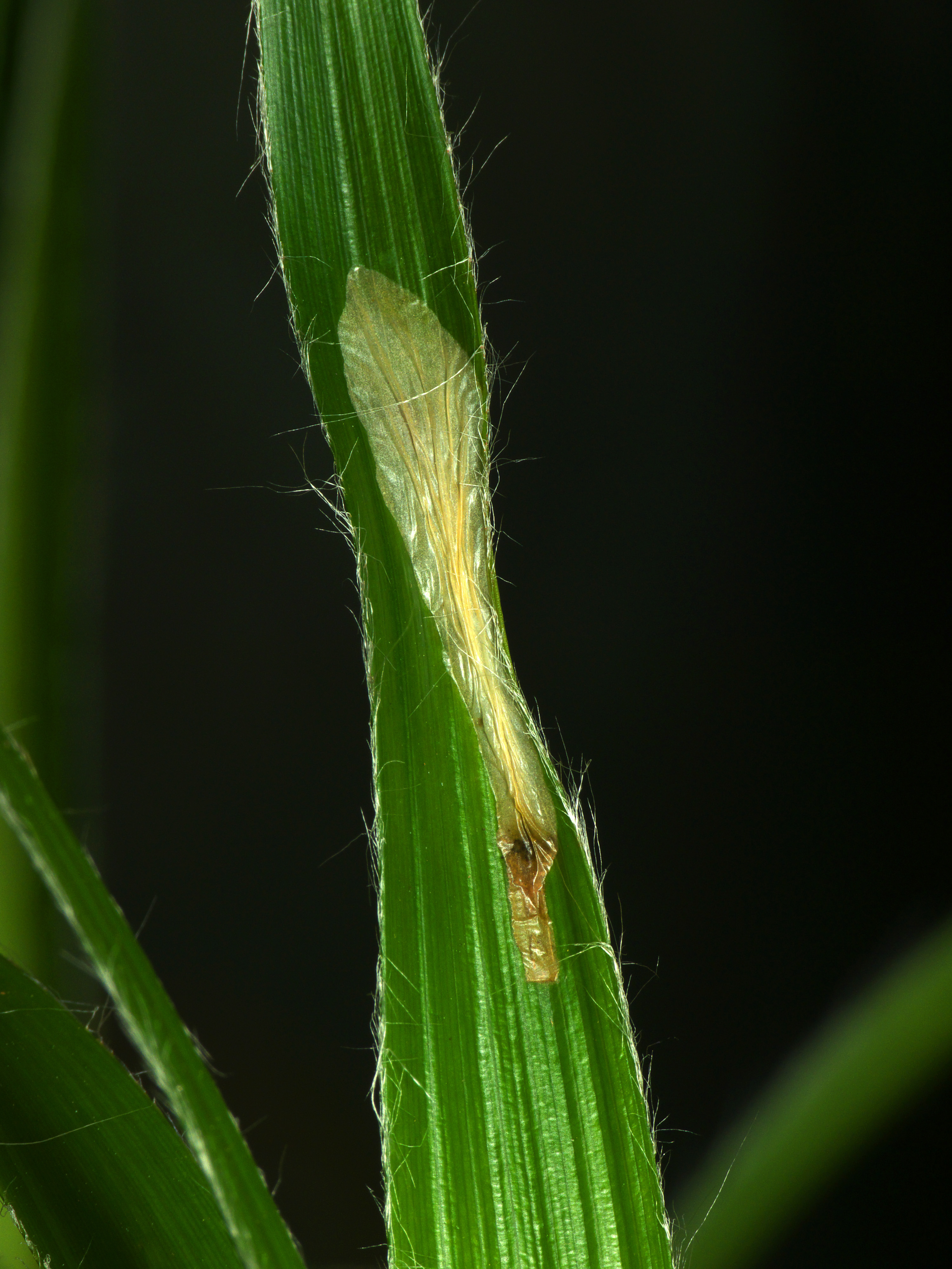 On Luzula sylvatica, Wyre Forest. Thanks to Tony Simpson for confirming my tentative I.D. Imagines emerged 27.6.12.